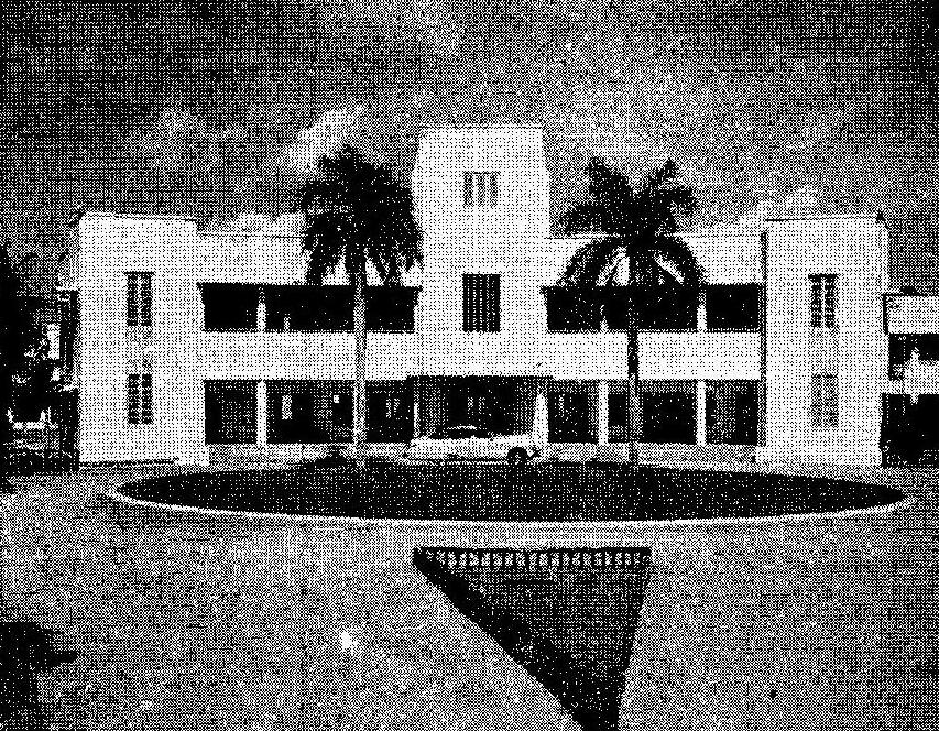 A famous film studio of yesteryears